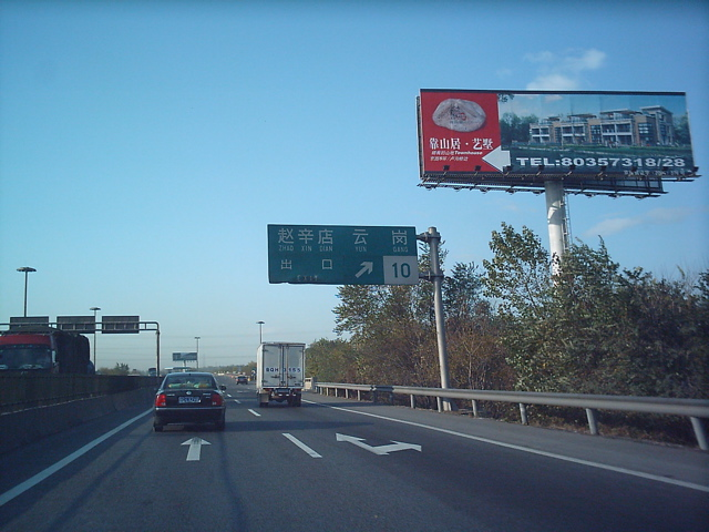 Jingshi Expressway -- Narrow Beijing Section. DF08 2004 image.